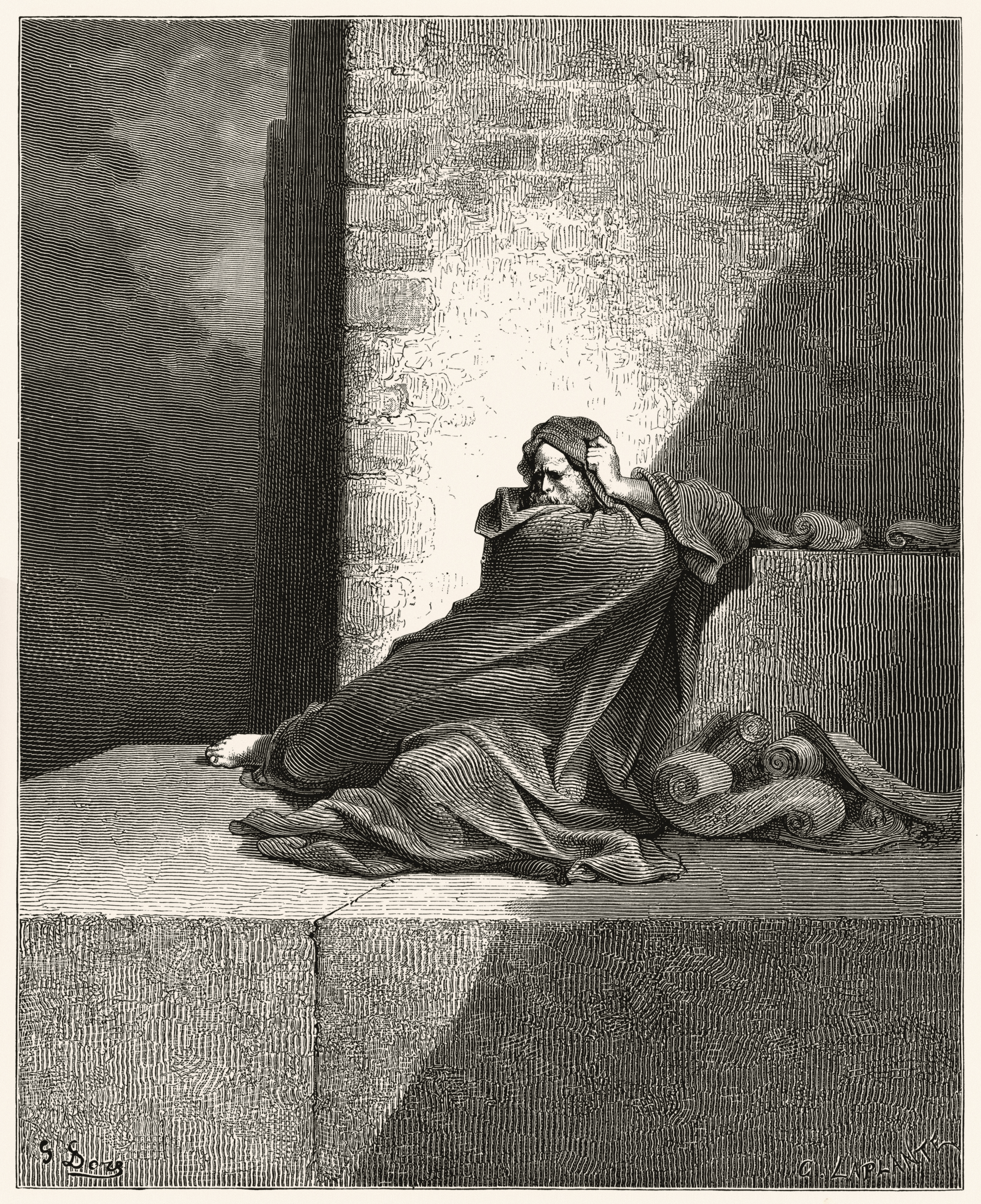 Scan of a Gustave Doré engraving titled "Baruch" - 1866.